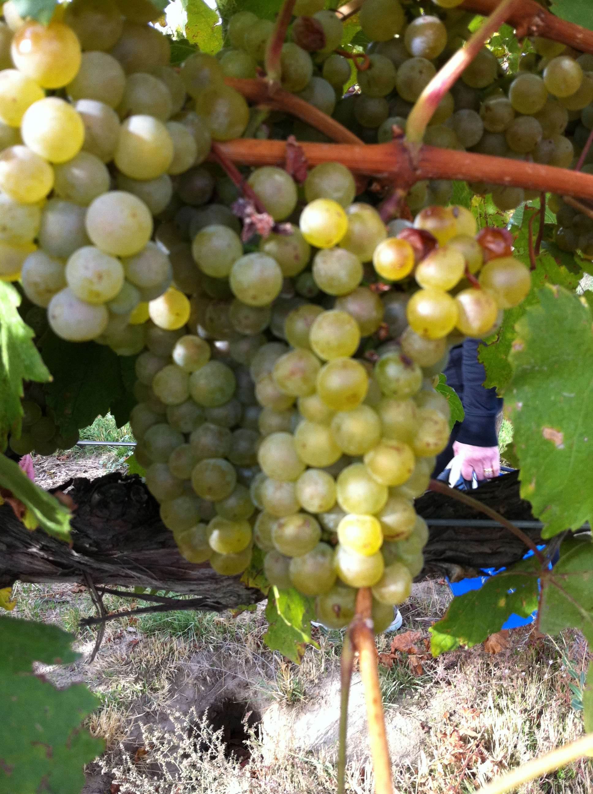 Chardonnay grapes grown in the Yakima Valley of Washington State